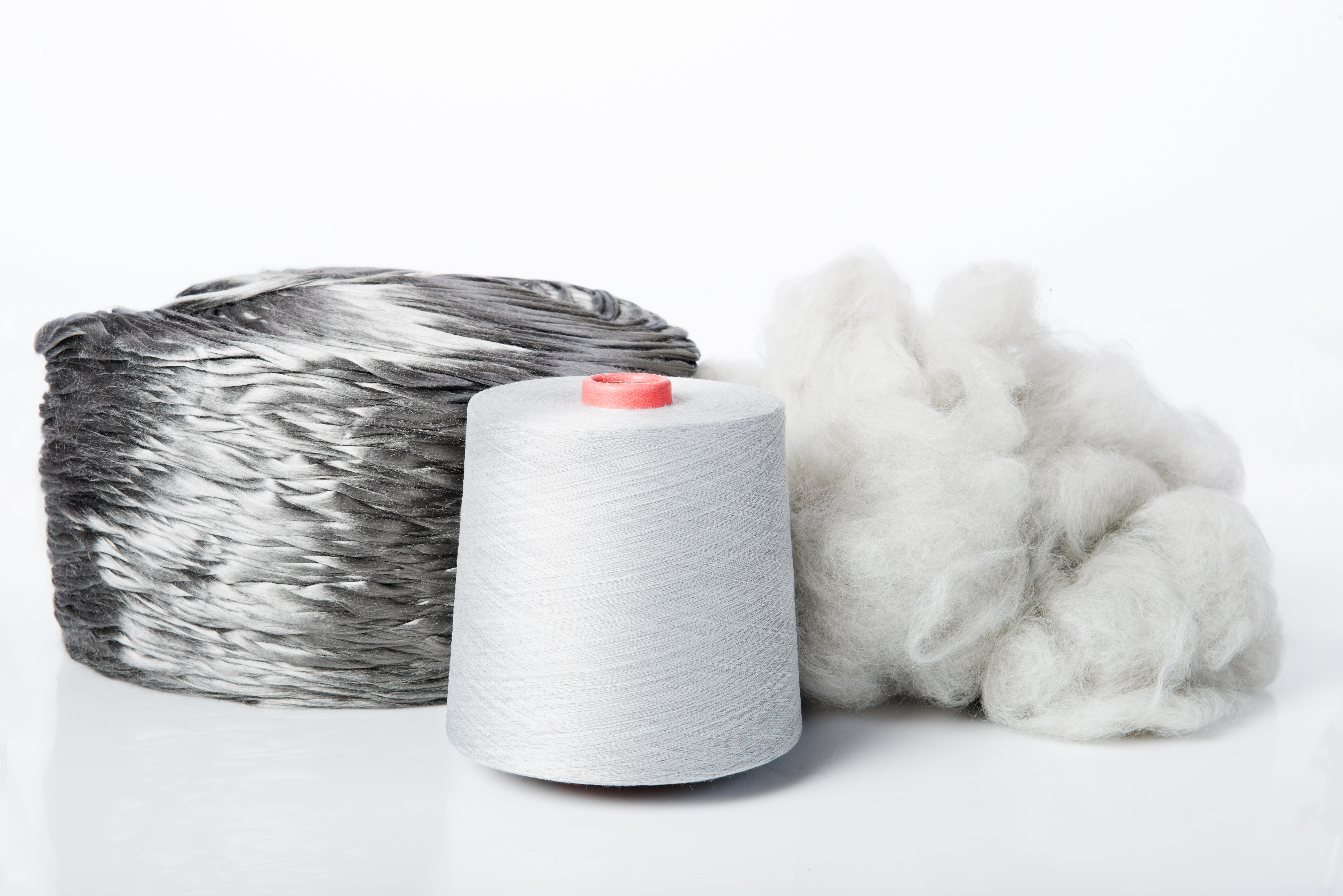 Yarns